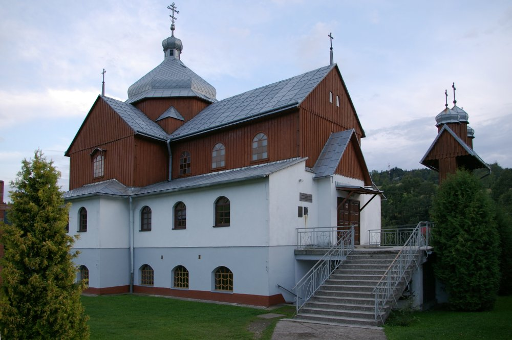 Ukrainian Catholic Church in Komańcza, Poland